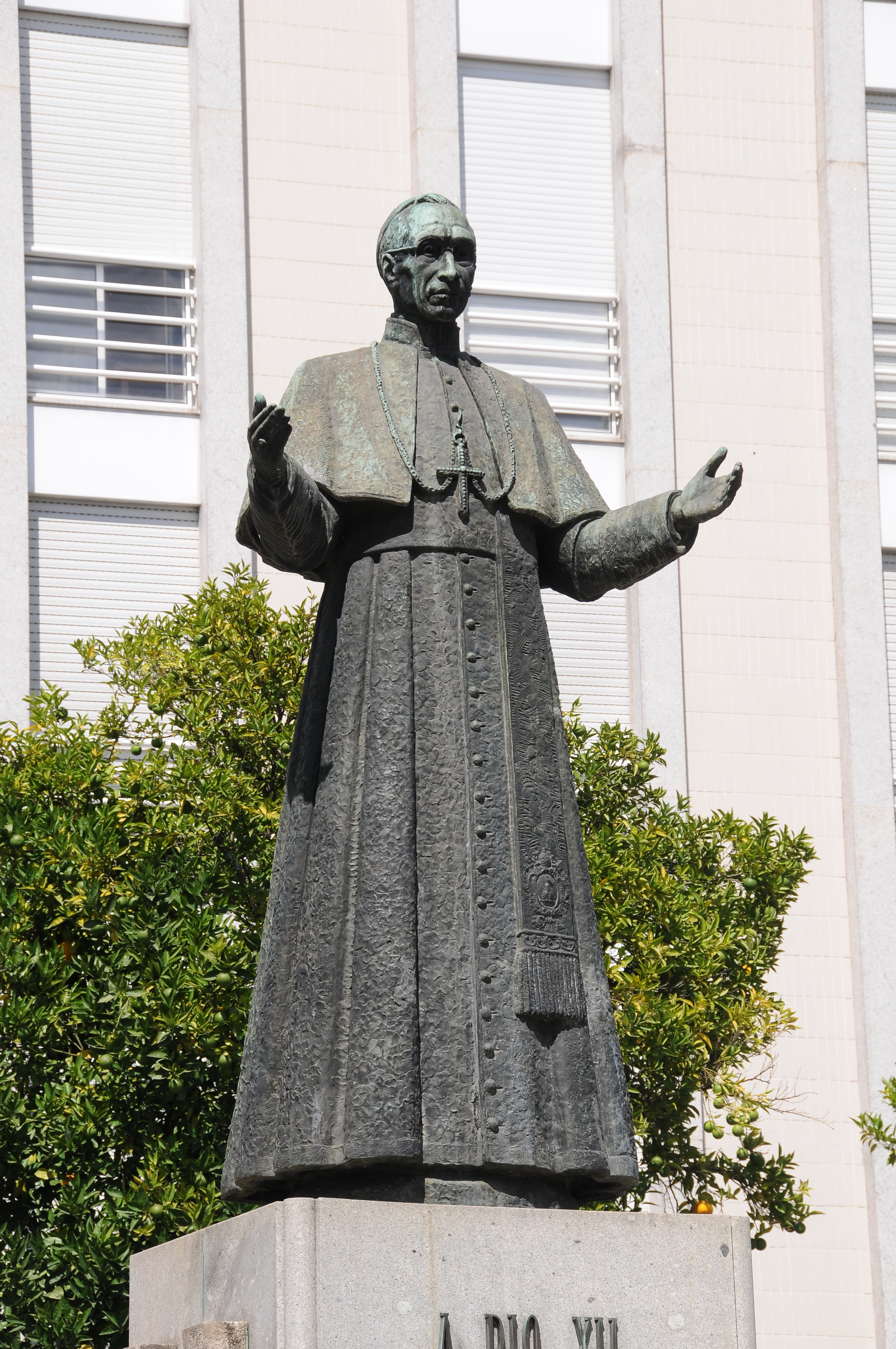 Statue of Pius XII, in Largo da Senhora a Branca, Braga, Portugal.